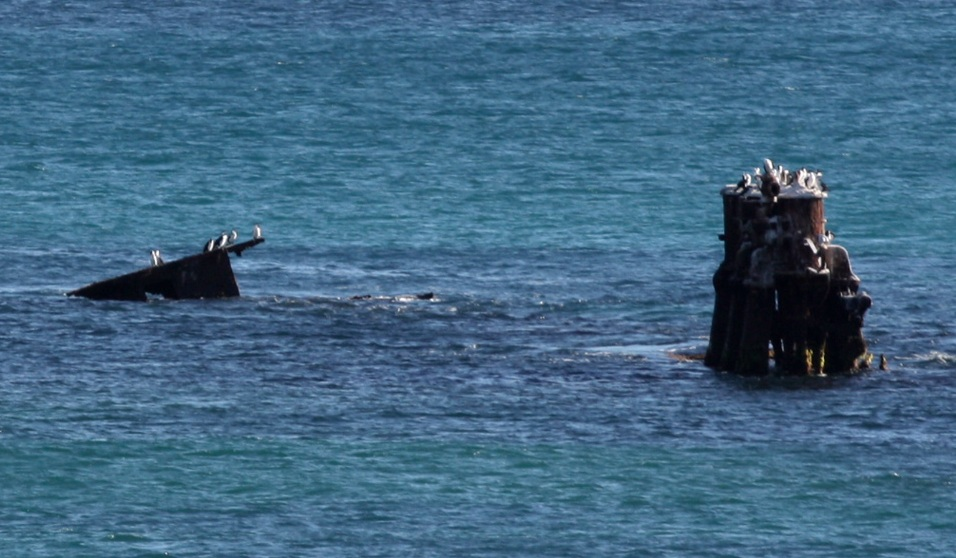 The Alkimos shipwreck lies a few hundred metres off the coast of Western Australia, approximately 50km north of Perth. This photo is courtesy of